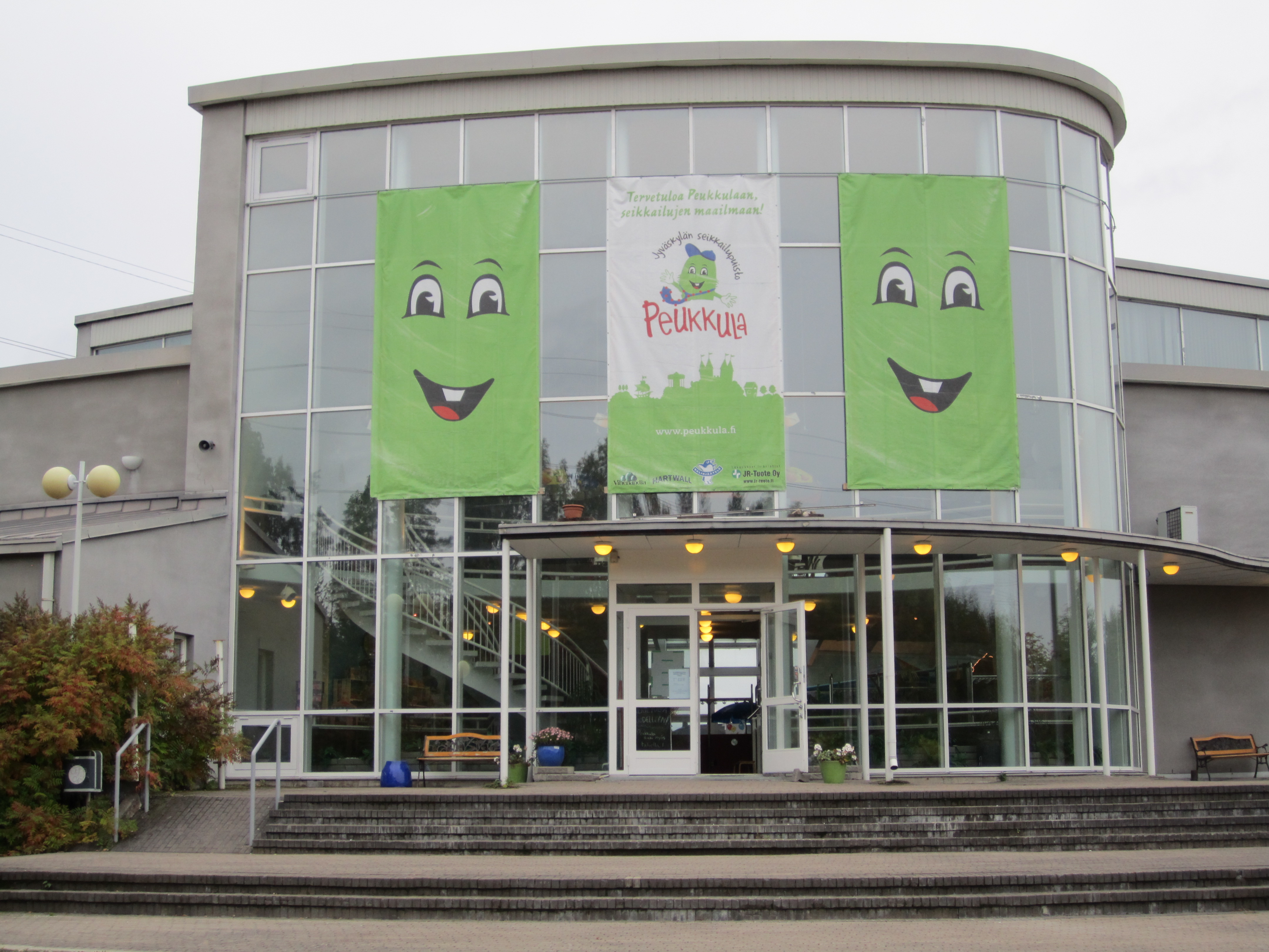 Main entrance of Peukkula.